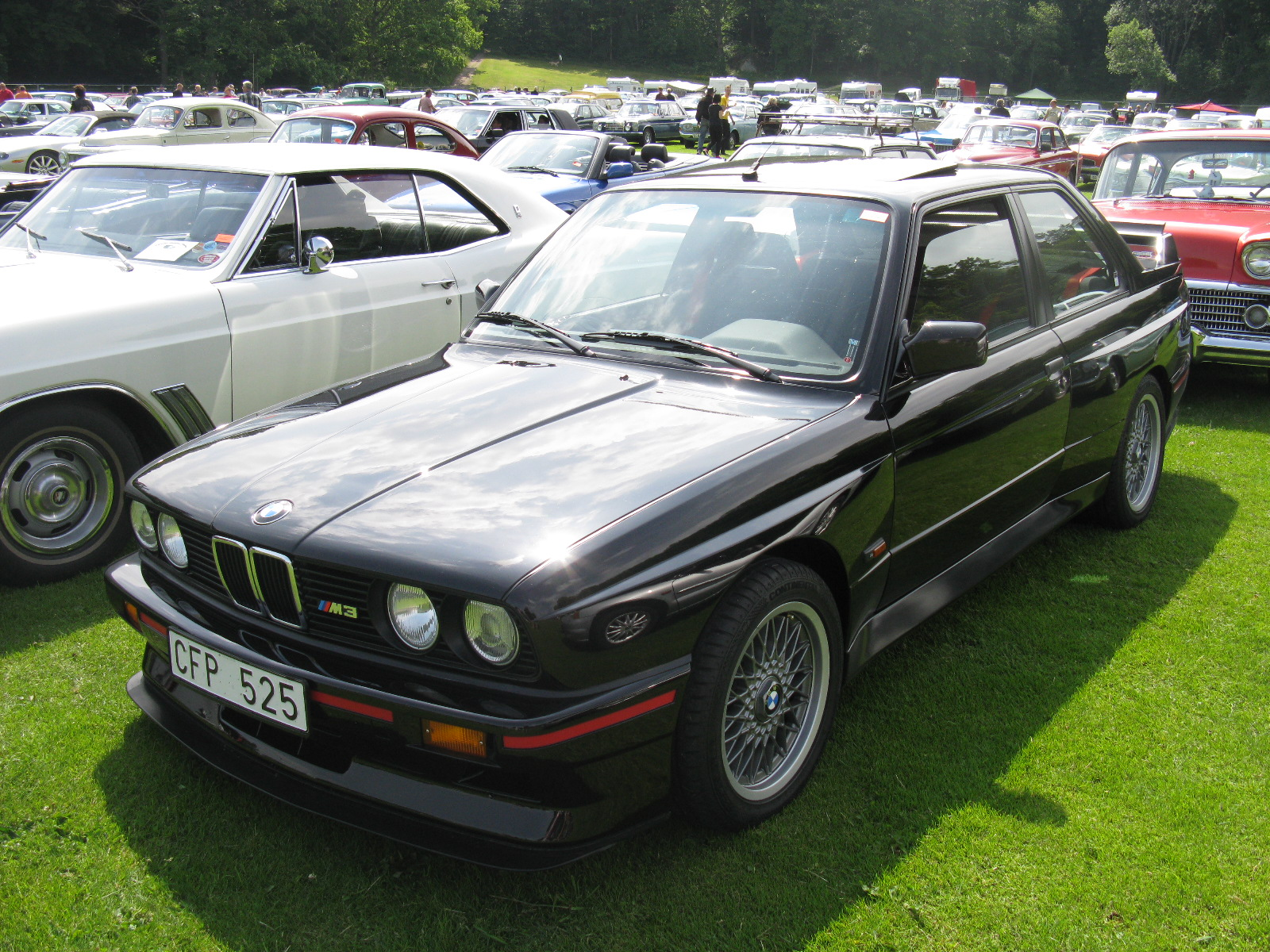 BMW M3 E30 Sport Evolution